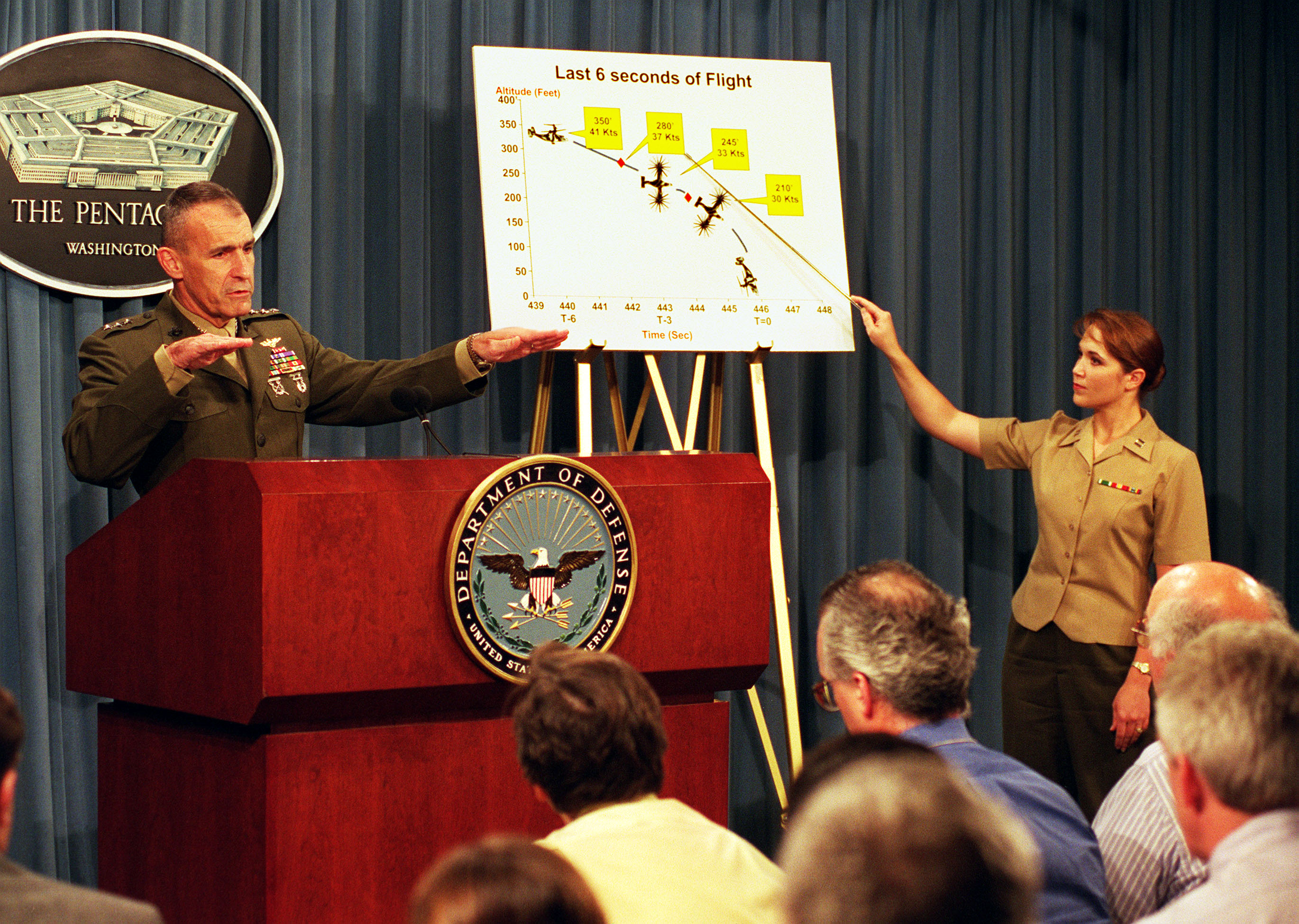 Lt. Gen. Fred McCorkle, U.S. Marine Corps, briefs reporters at the Pentagon on May 9, 2000, on the latest findings in the mishap investigation of the April 8, 2000, crash of one of the Marine Corps new MV-22 Osprey tilt-rotor aircraft. The crash, which killed all 19 Marines aboard, occurred at Marana Airport, just outside Tucson, Arizona. Capt. Aisha Bakkar-Poe (right), U.S. Marine Corps, points to the chart showing the speed, altitude, and orientation of the aircraft during the final six seconds of flight. McCorkle is the deputy chief of staff for aviation, Headquarters Marine Corps.